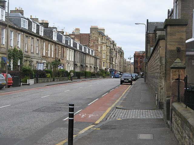 Gilmore Place Route into Ediburgh from the southwestern part of the city. Gilmore Place is home to a dense concentration of bed and breakfasts.